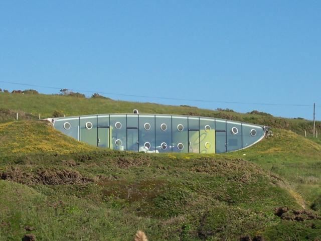 Malator (known locally as Teletubby house) Situated in Druidstone this cutting edge contemporary home has won world wide acclaim for its architectural design.